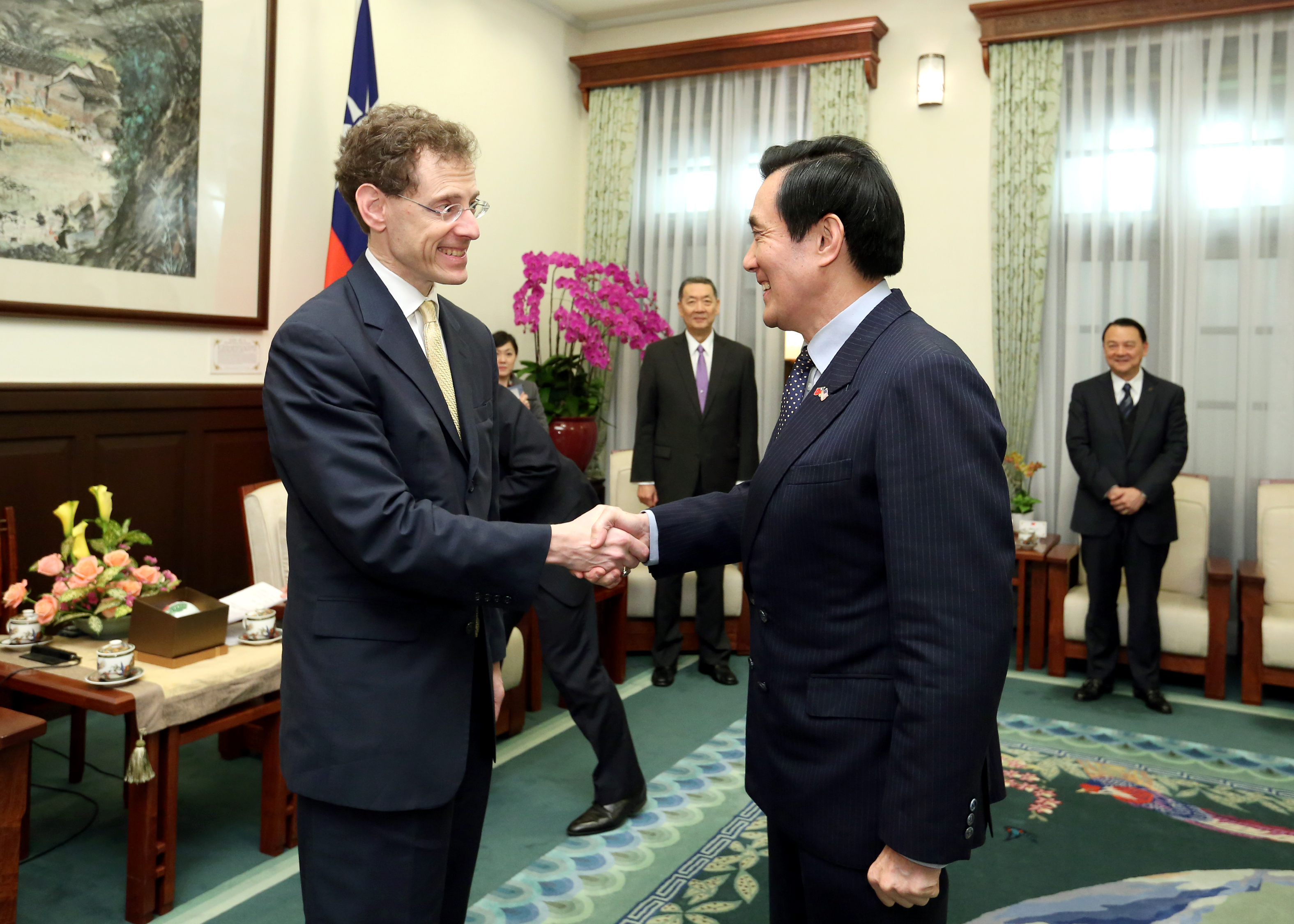 Lagon meeting then-President of Taiwan Ma Ying-jeou in 2016 while President of Freedom House.